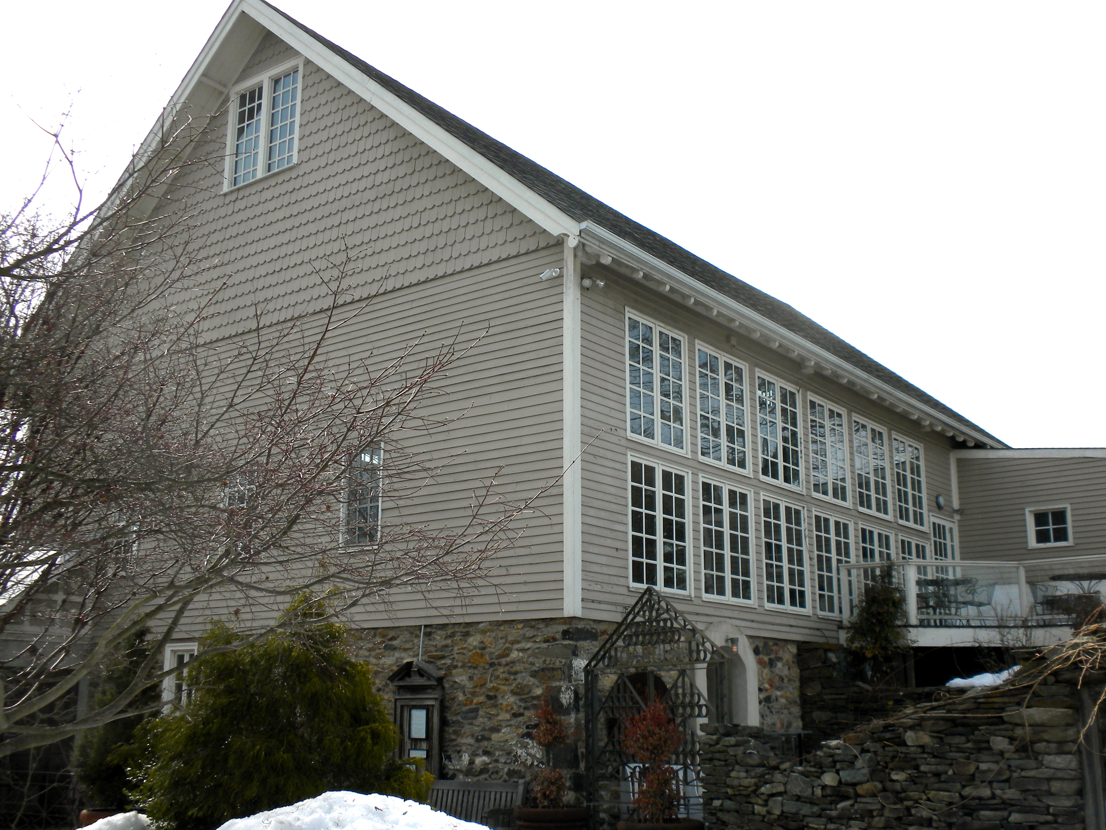 Brinton-King Farmstead on NRHP since March 21, 2002, at 1301 Brinton's Bridge Road, 162 Baltimore Pike, near Chadd's Ford, PA (but in Chester County, Pennsbury Township). This building has been "restored" into a restaurant; maybe it's just too many windows in back, but for a NRHP, it loks brand spanking new.